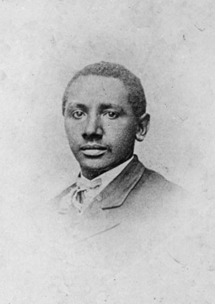 Thomas R. Hawkins, Medal of Honor recipient. This photograph was part of the material prepared by W.E.B. Du Bois for the Negro Exhibit of the American Section at the Paris Exposition Universelle in 1900 to show the economic and social progress of African Americans since emancipation.